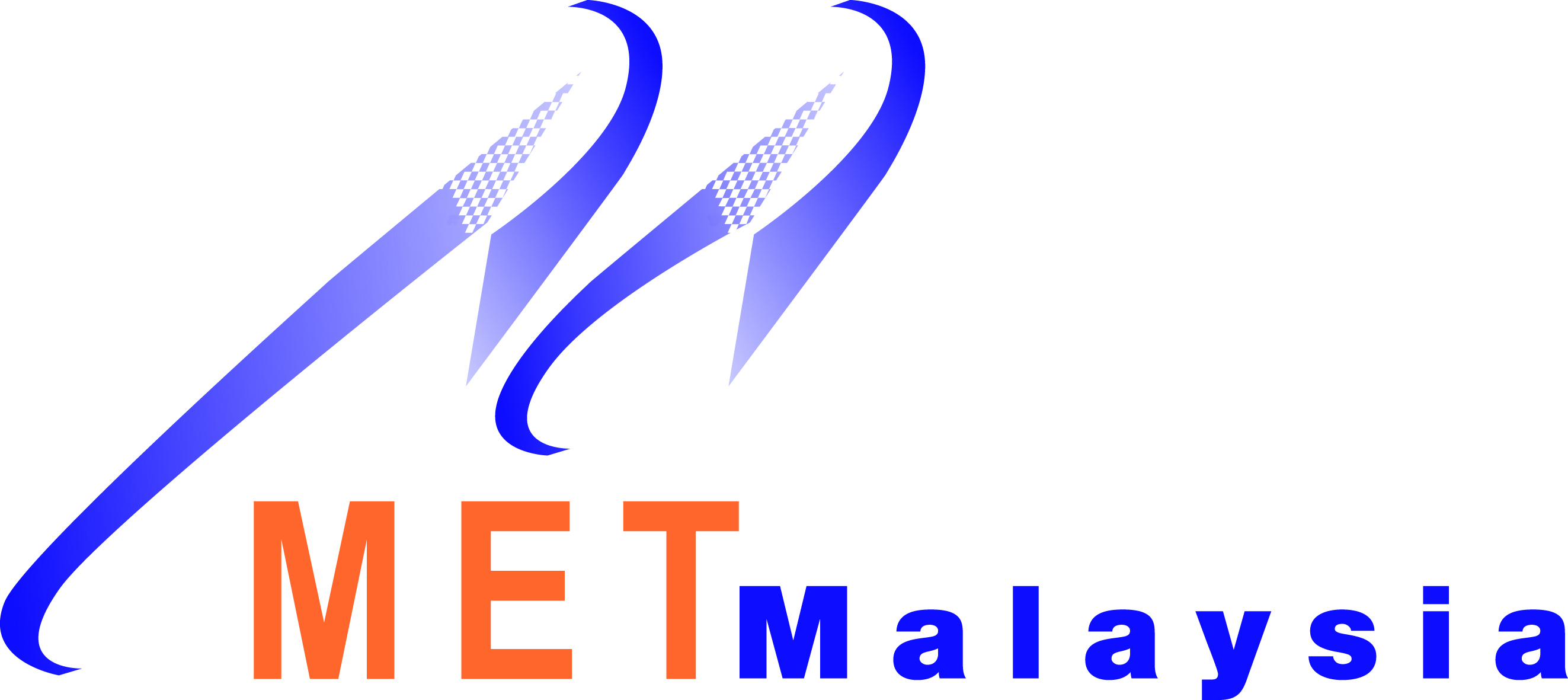 This is official logo of MetMalaysia